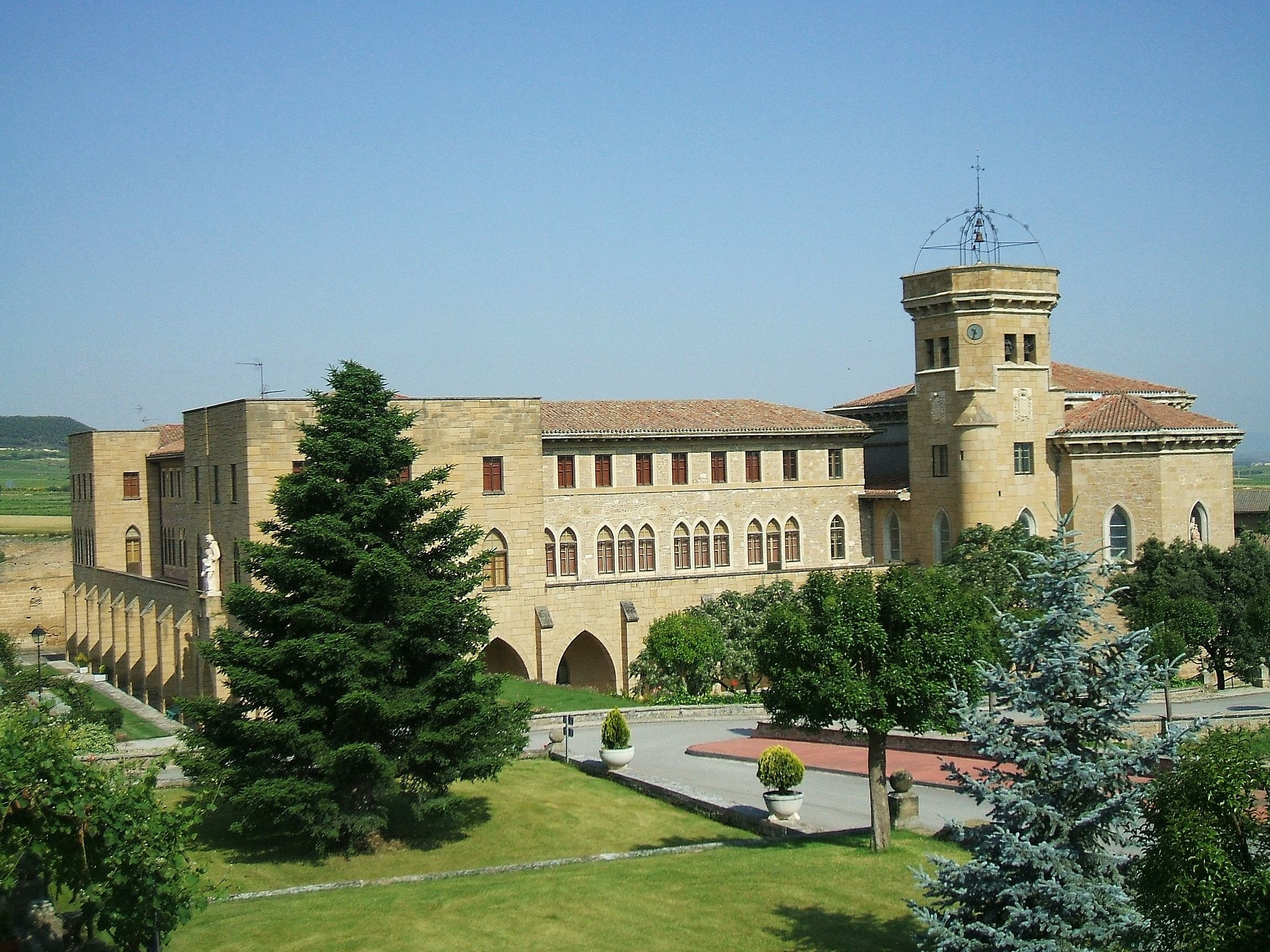 Monasterio de Santa María de la Estrella, San Asensio, La Rioja, España